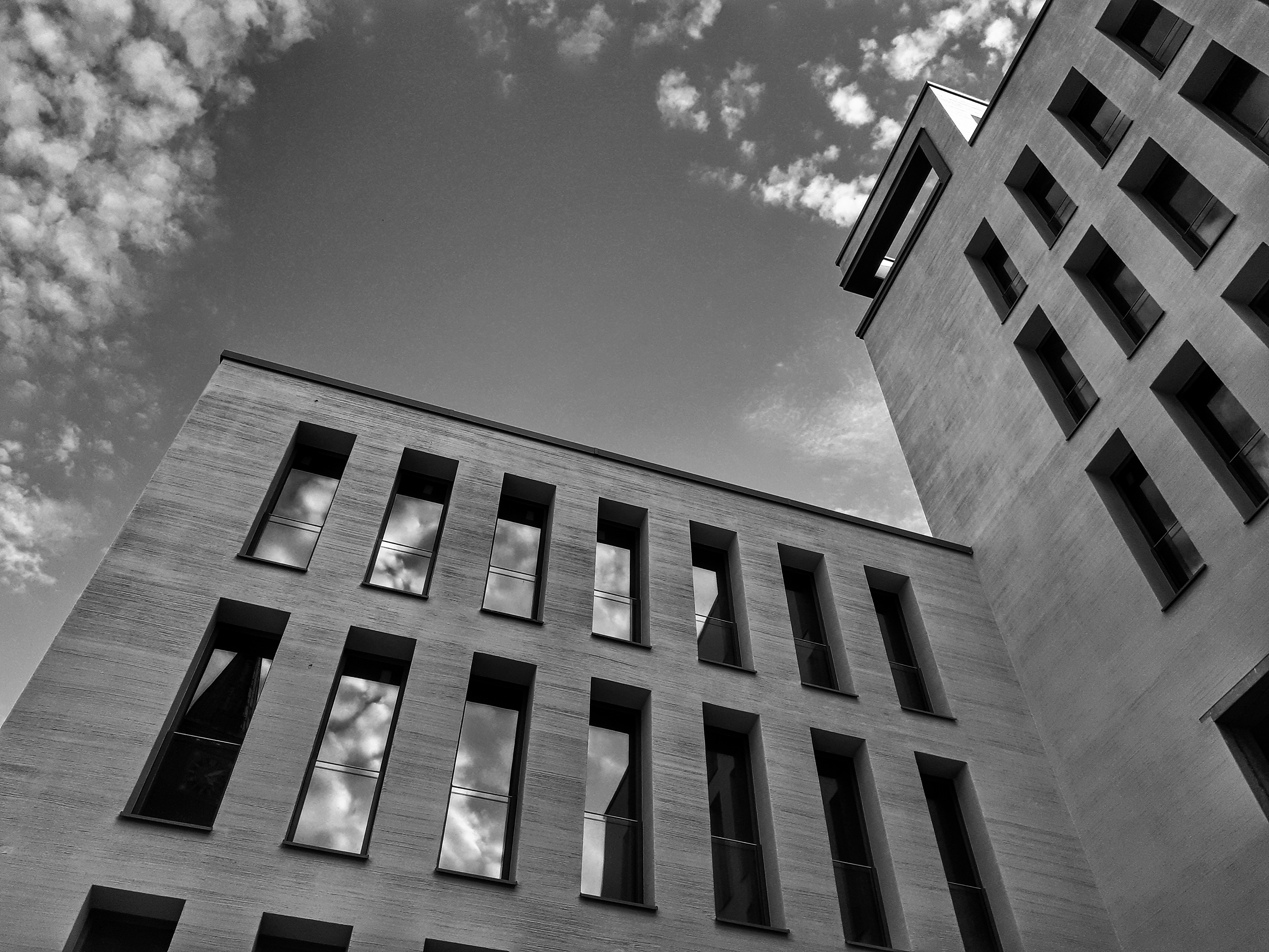 Das Neue Rathaus in Bernau bei Berlin